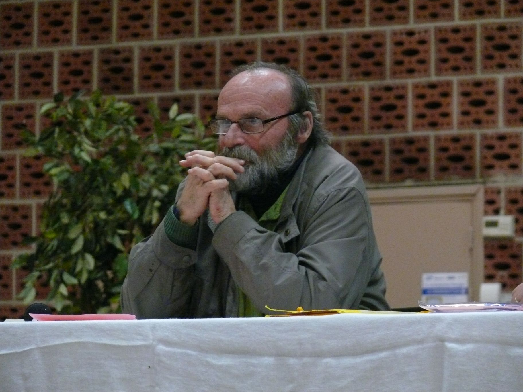 Father Jean-Marie Petitclerc in Lille (Nord, France).